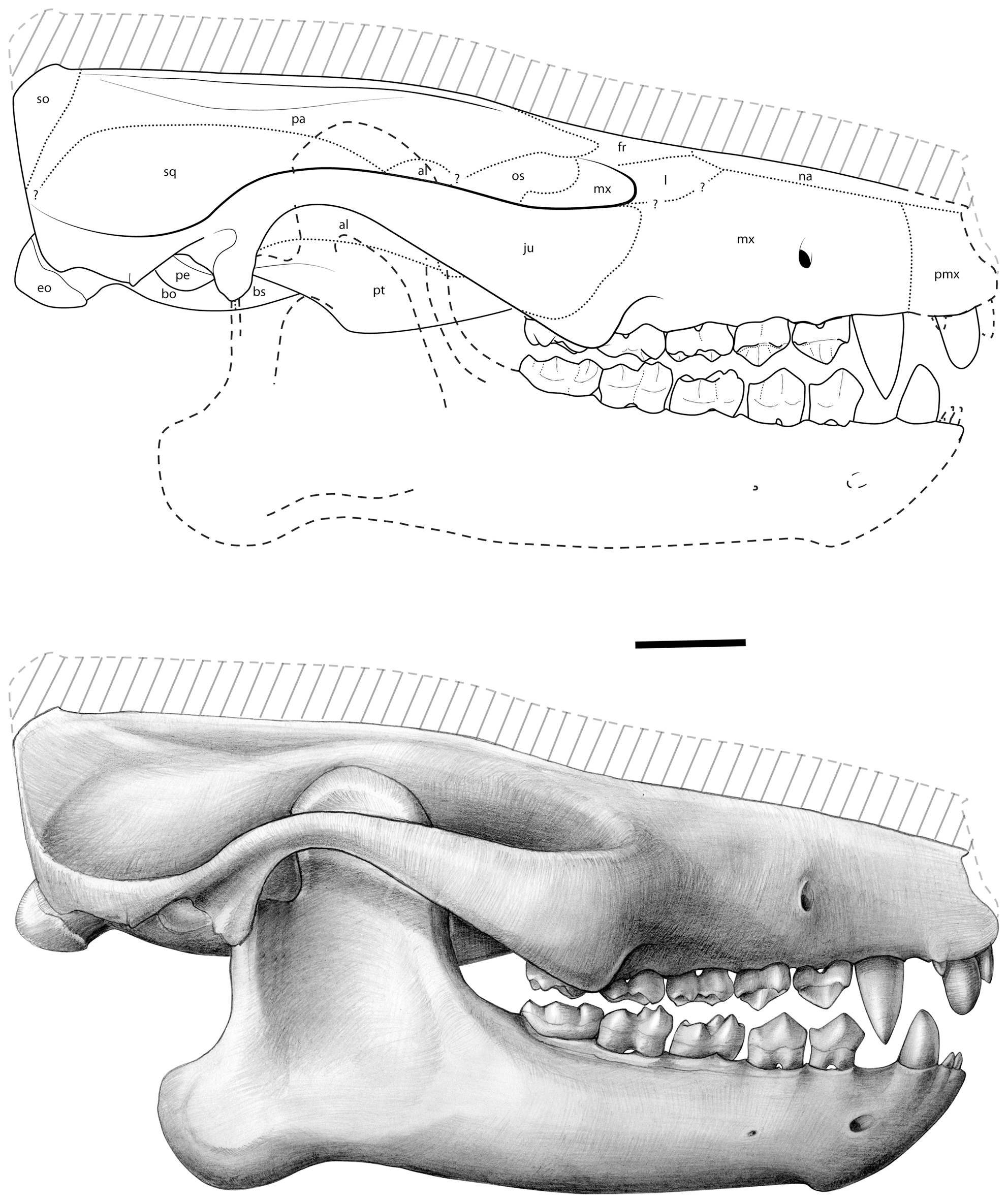 Ocepeia daouiensis, Selandian, Phosphate level IIa of Sidi Chennane, Ouled Abdoun Basin, Morocco O. daouiensis. Reconstruction of the skull. Lateral view. This reconstruction of the skull is based on the female specimen MNHN.F PM45. The specimen MNHN.F PM54, a male individual, is distinct from MNHN.F PM45 with a more robust skull morphology and presence of a stronger sagittal crest. The dashed line (hatched area) at skull roof corresponds to our estimated correction of the plastic dorso-ventral crushing of MNHN.F PM45 that could not be quantified precisely on this specimen, even with the CT scans (see comments in text, §Reconstruction); the correction is based on comparison with MNHN.F PM54. The lower jaw was reconstructed based on specimen MNHN.F PM41 [26]. Drawings: C. Letenneur (MNHN).